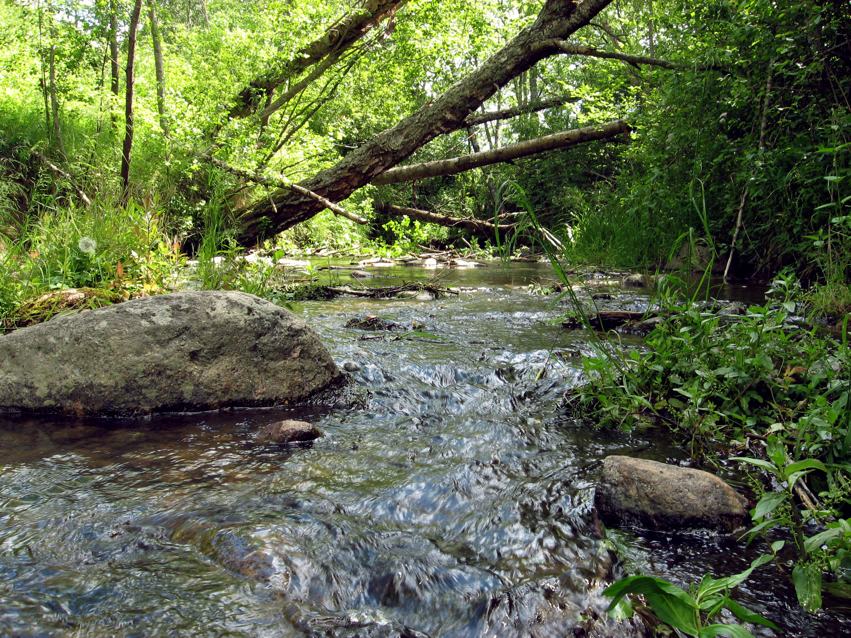 Poguļanka River